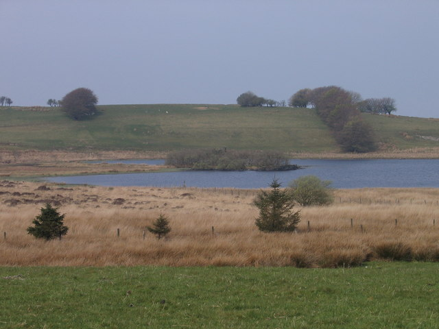 Llyn Eiddwen Llyn Eiddwen gyda Castell Tredwell prin o'i gweld mewn coed ar benrhyn bach / Llyn Eiddwen with Castell Tredwell(folly)just visible in the trees on the small peninsula.